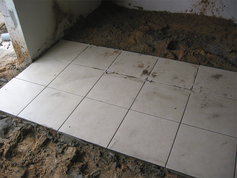 Floor construction